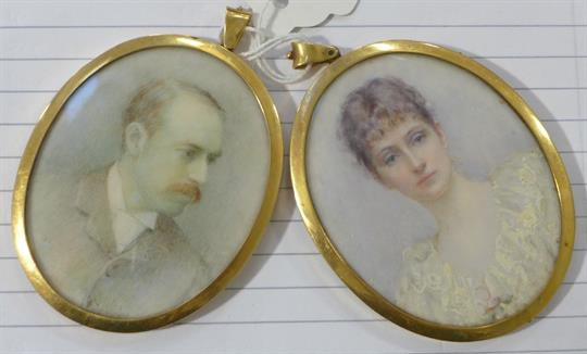 Annie R. Merrylees (b 1867 - fl 1930s) pair of oils on ivory,Miniatures of Mr and Mrs Archibald Cameron Corbett. Archibald Cameron Corbett, 1st Baron Rowallan (23 May 1856 – 19 March 1933), was a Scottish Liberal Party and Liberal Unionist Party politician. guess at 1910